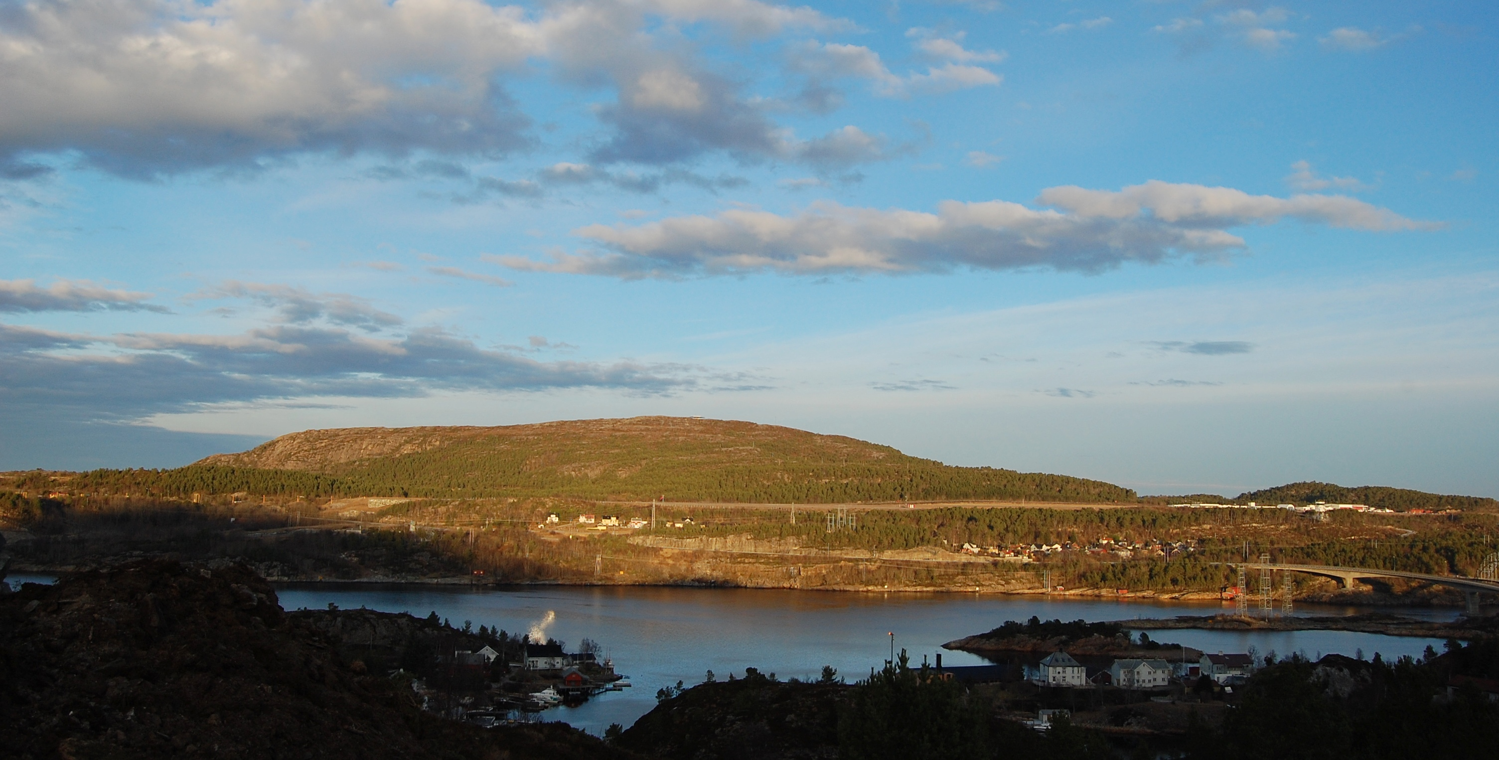 The hill Kvernberget (with airport) in Kristiansund viewed from Jørihaugen at the island Frei, Møre og Romsdal, Norway